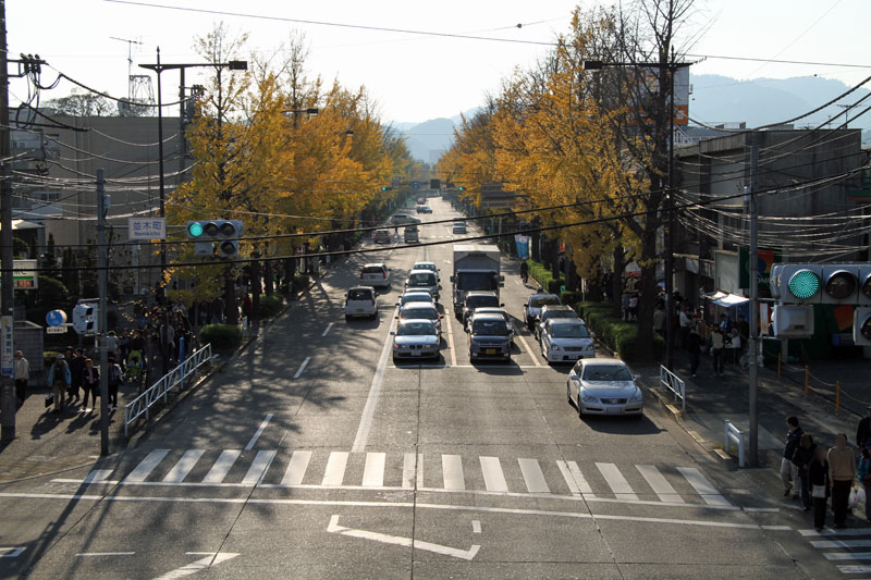 Ginkgo street of Route 20, Namikicho, Hachioji, Tokyo, Japan